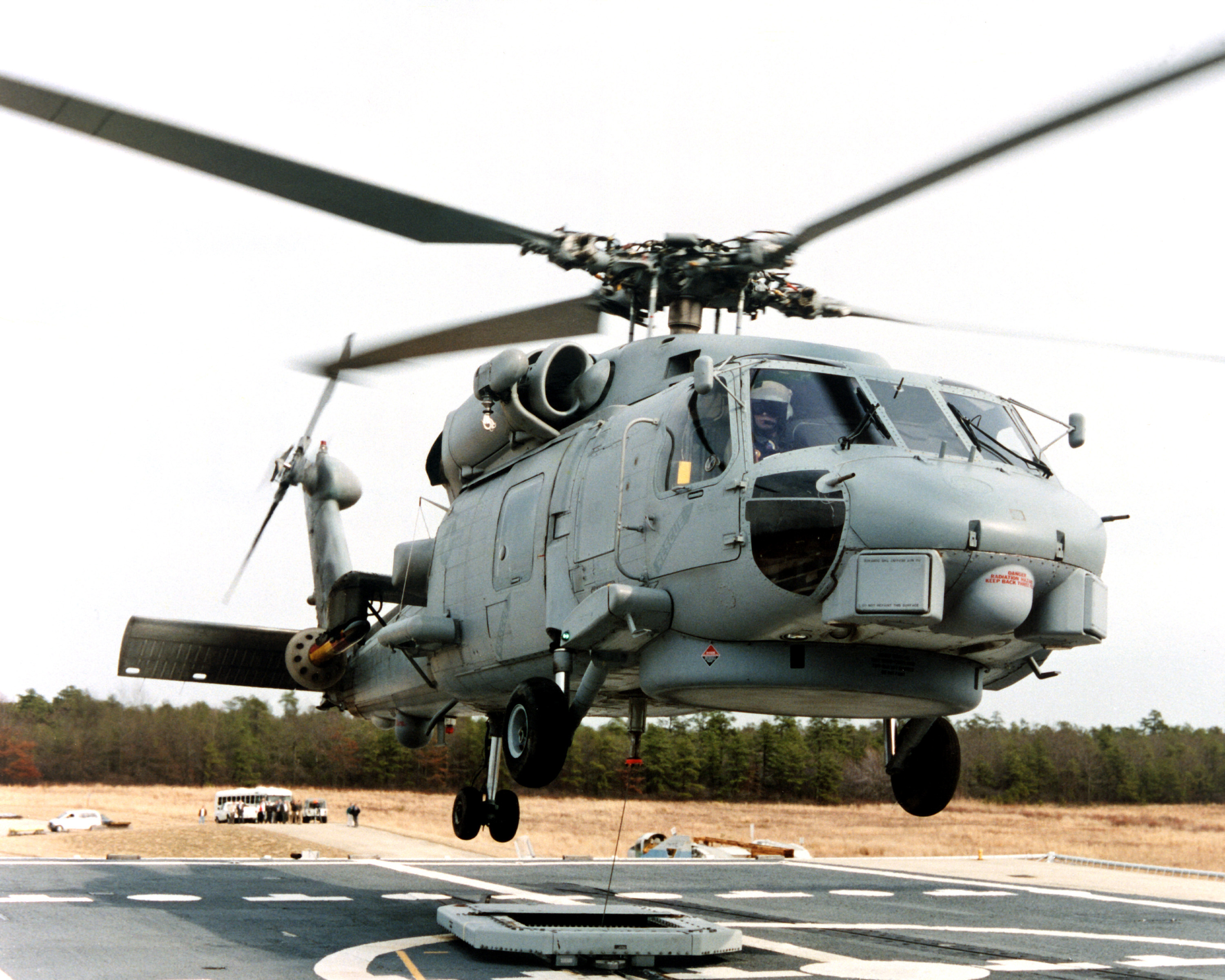 An SH-60B Seahawk helicopter assigned to the Naval Air Warfare Center Aircraft Division is hauled down to the Elevated Fixed Platform using the Recover Assist, Secure Traverse (RAST) system during Dynamic Interface testing. Piloting the helo are Lt. Pete Papa and Lt. Mike Cerneck.